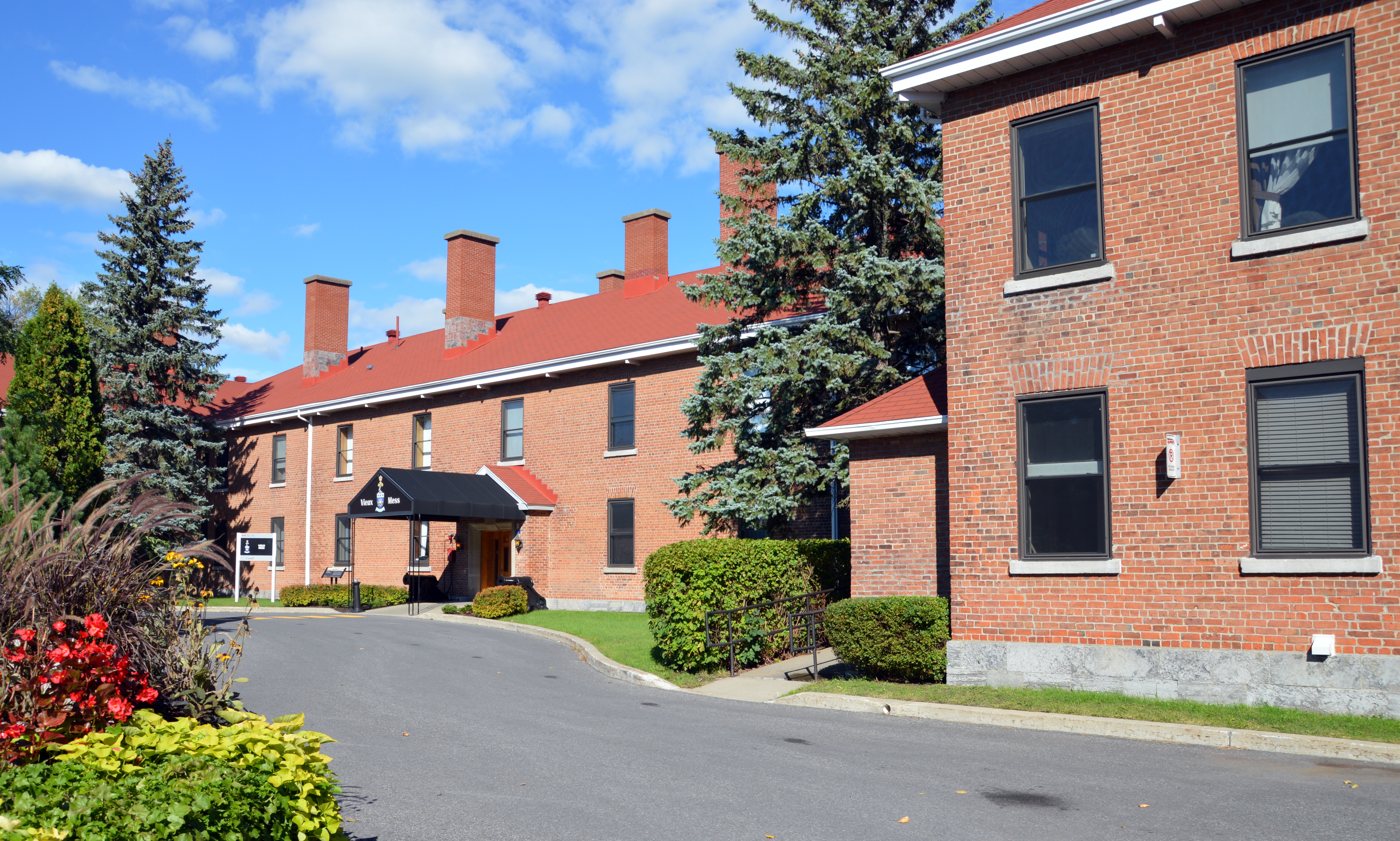 Old officer mess, Royal military college, Saint-Jean-sur-Richelieu